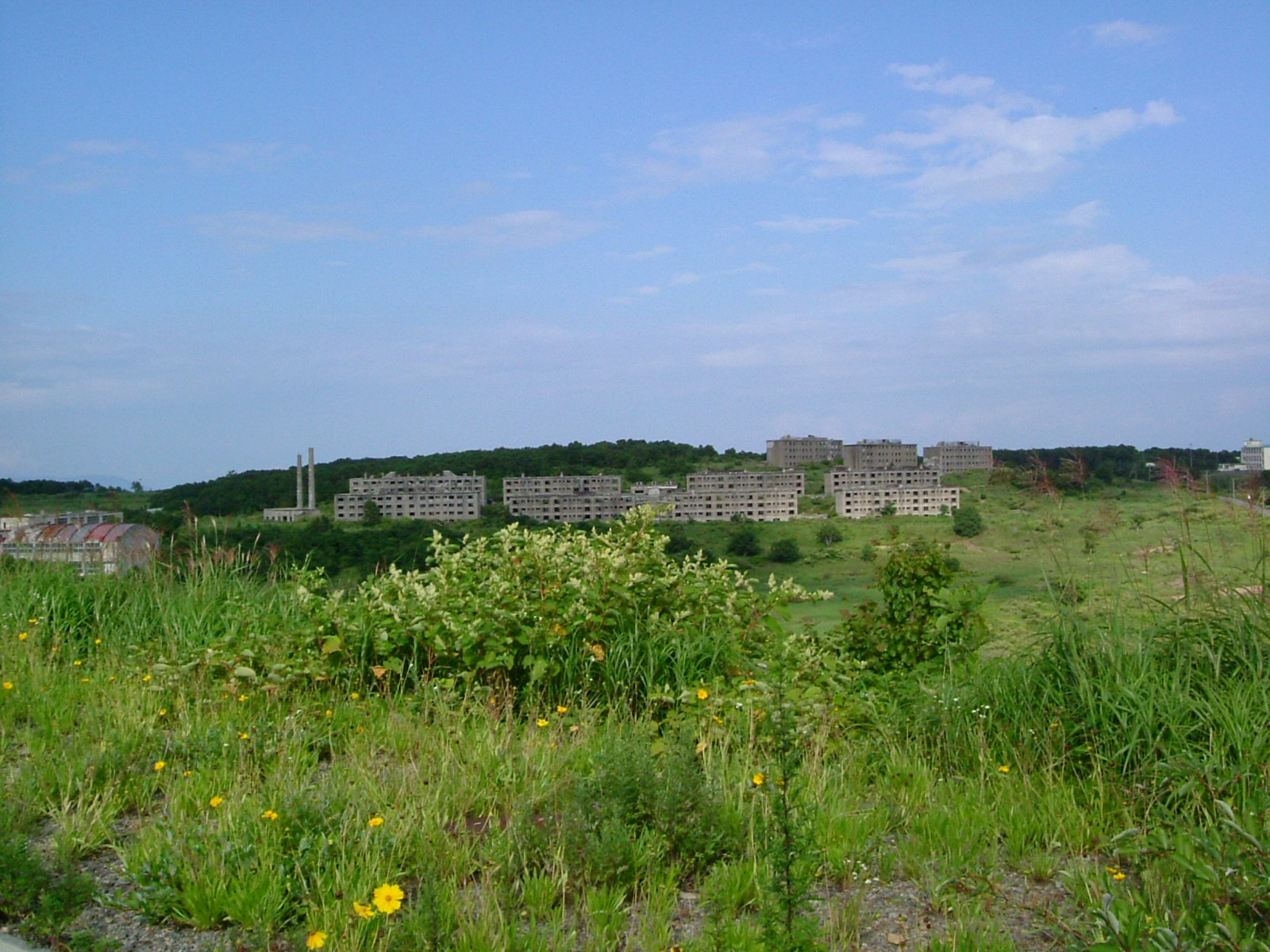 Midorigaoka Apartment Houses, now abandoned, at the former Matsuo Mine in Hachimantai City, Iwate Prefecture, Japan